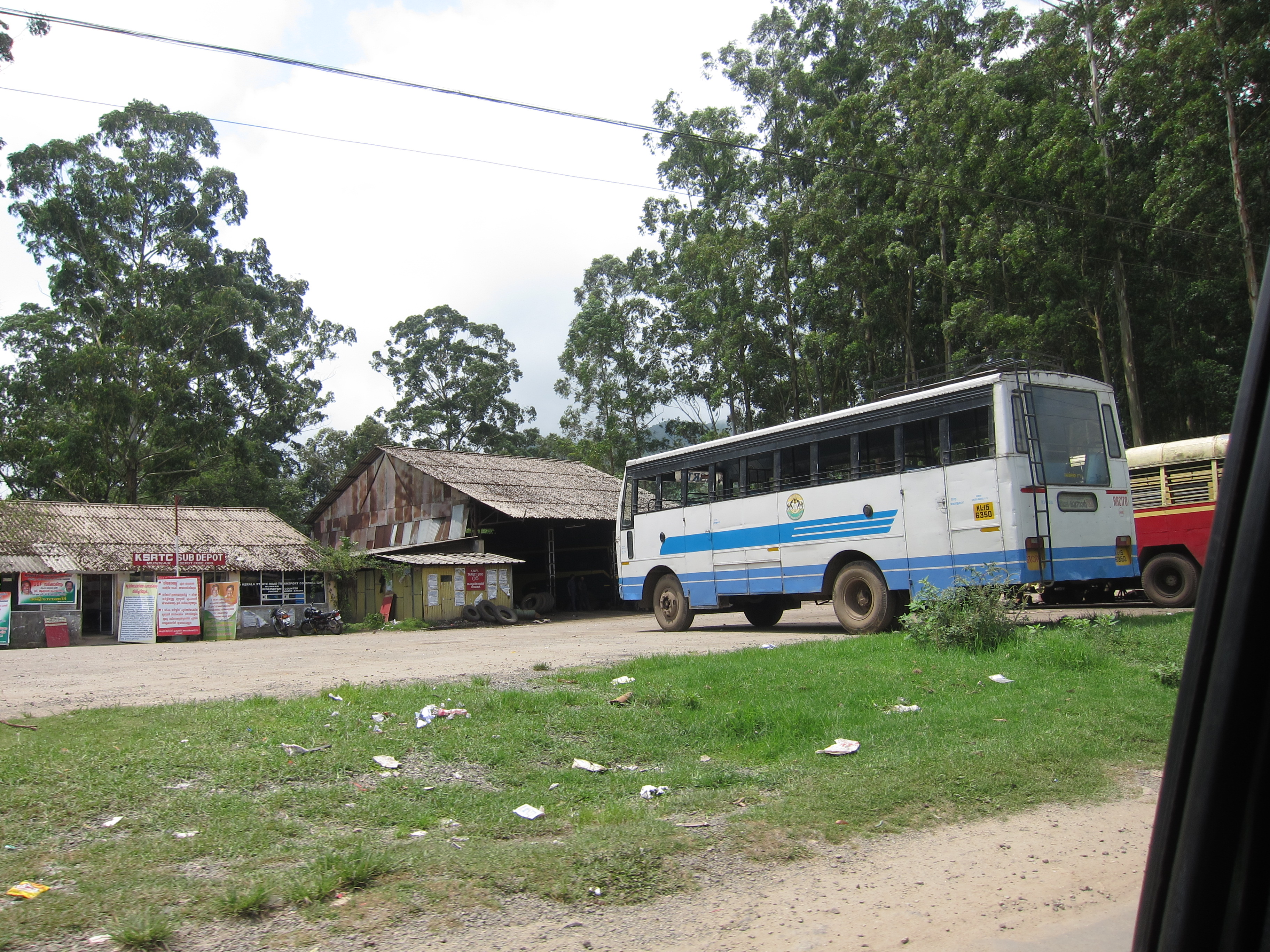 Munnar K.S.R.T.C Stand - മൂന്നാർ കെ.എസ്.ആർ.ടി.സി ബസ് സ്റ്റാൻഡ്